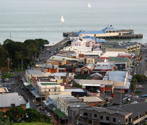 Devonport, New Zealand with the ferry terminal, seen from Mount Victoria, looking south. Devonport, Auckland - Photo taken 23 June 2002